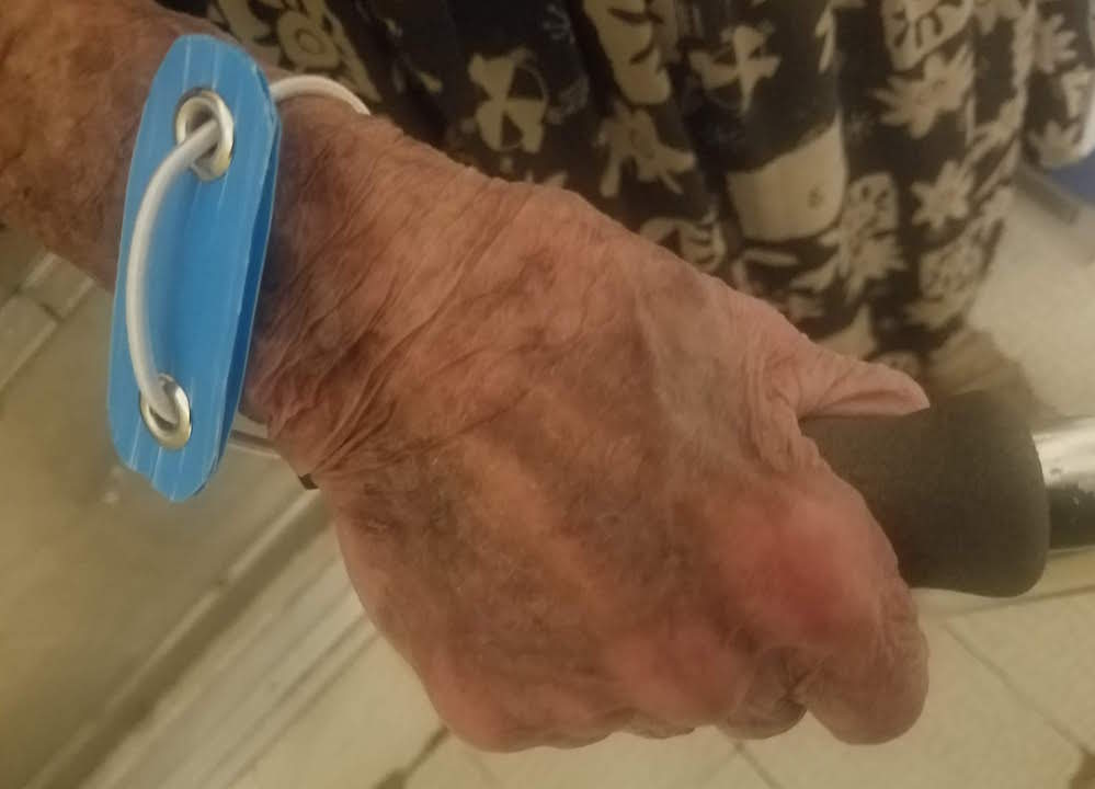 A memory clamp used to remember to take daily medicine